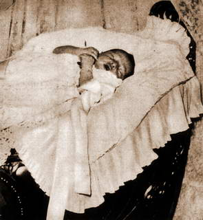 Official photograph of Crown Prince Ahmad Fuad of Egypt, later King Fuad II of Egypt, taken shortly after his birth.